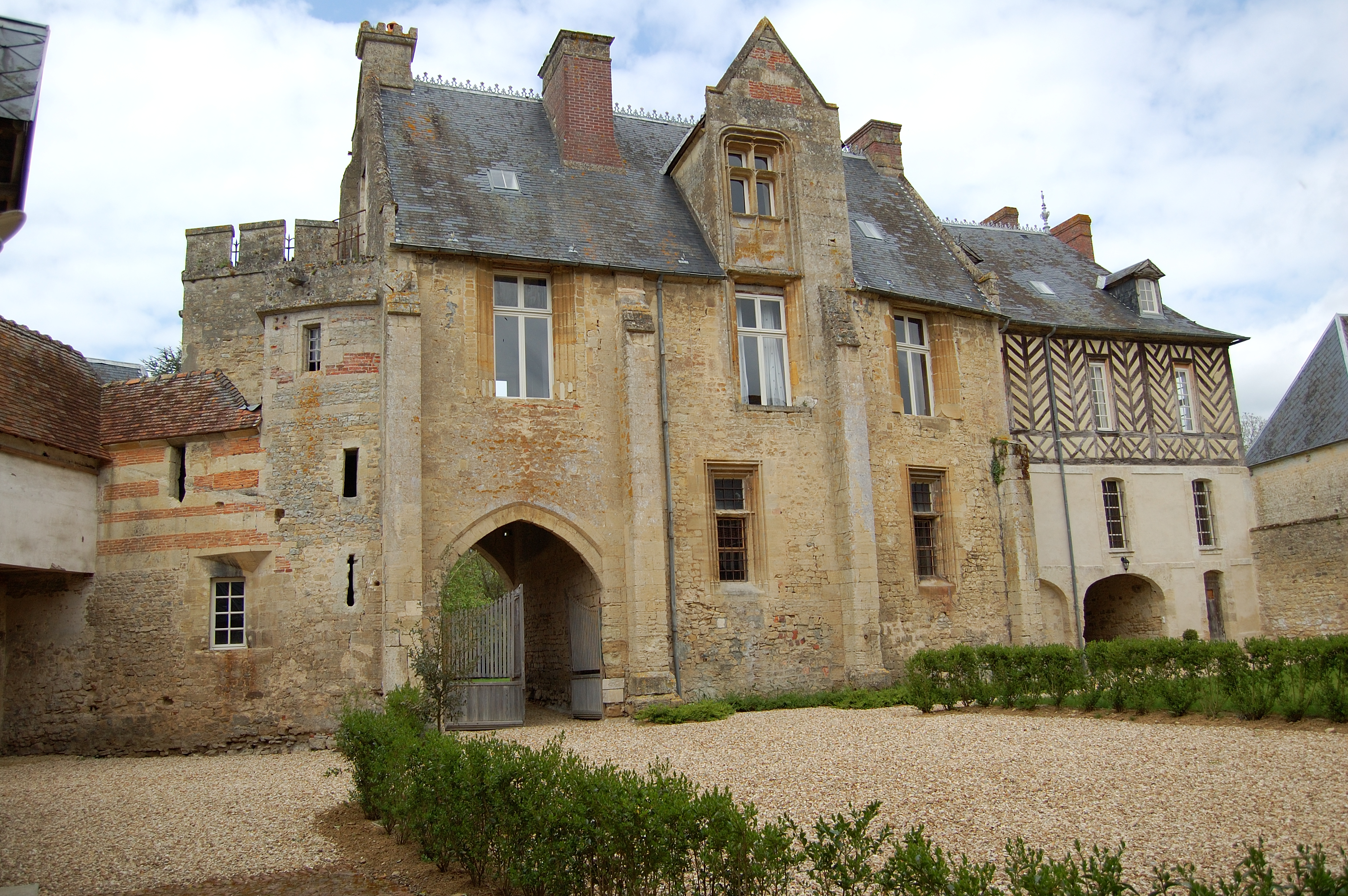 Houblonniere house